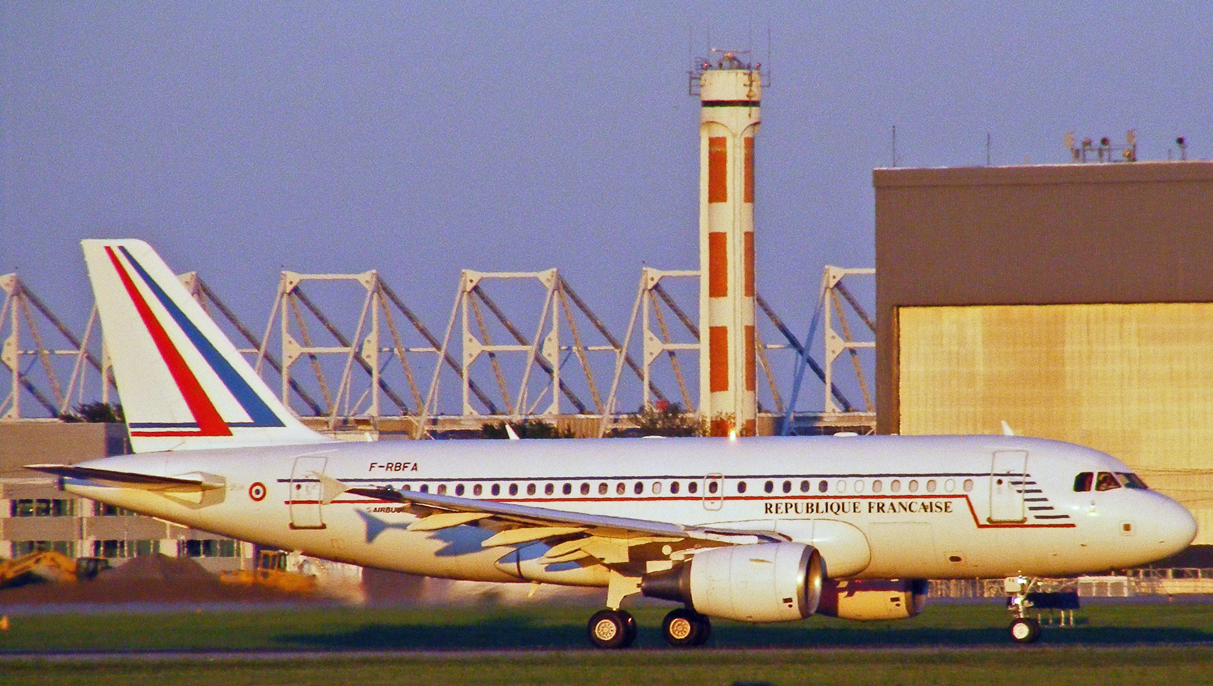 French Government airplane just before take-off in Montreal, Quebec, Canada. The French Prime Minister was there for the 400th anniversary of Quebec foundation.